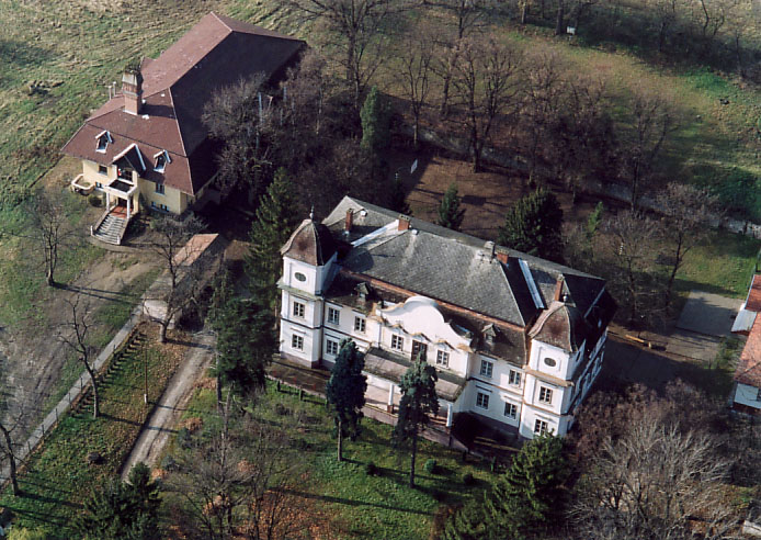 Palace - Vatta - Hungary - Europe